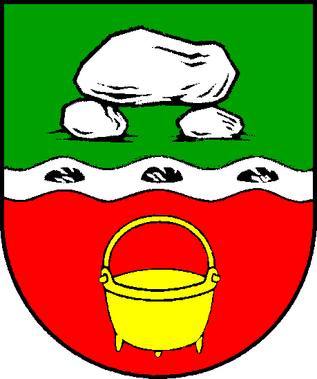 Coat of arms of the municipality Gokels in Schleswig-Holstein, Germany.